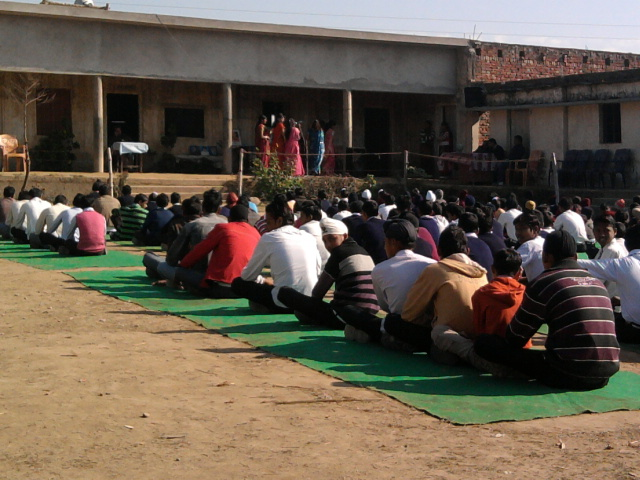 turatpur